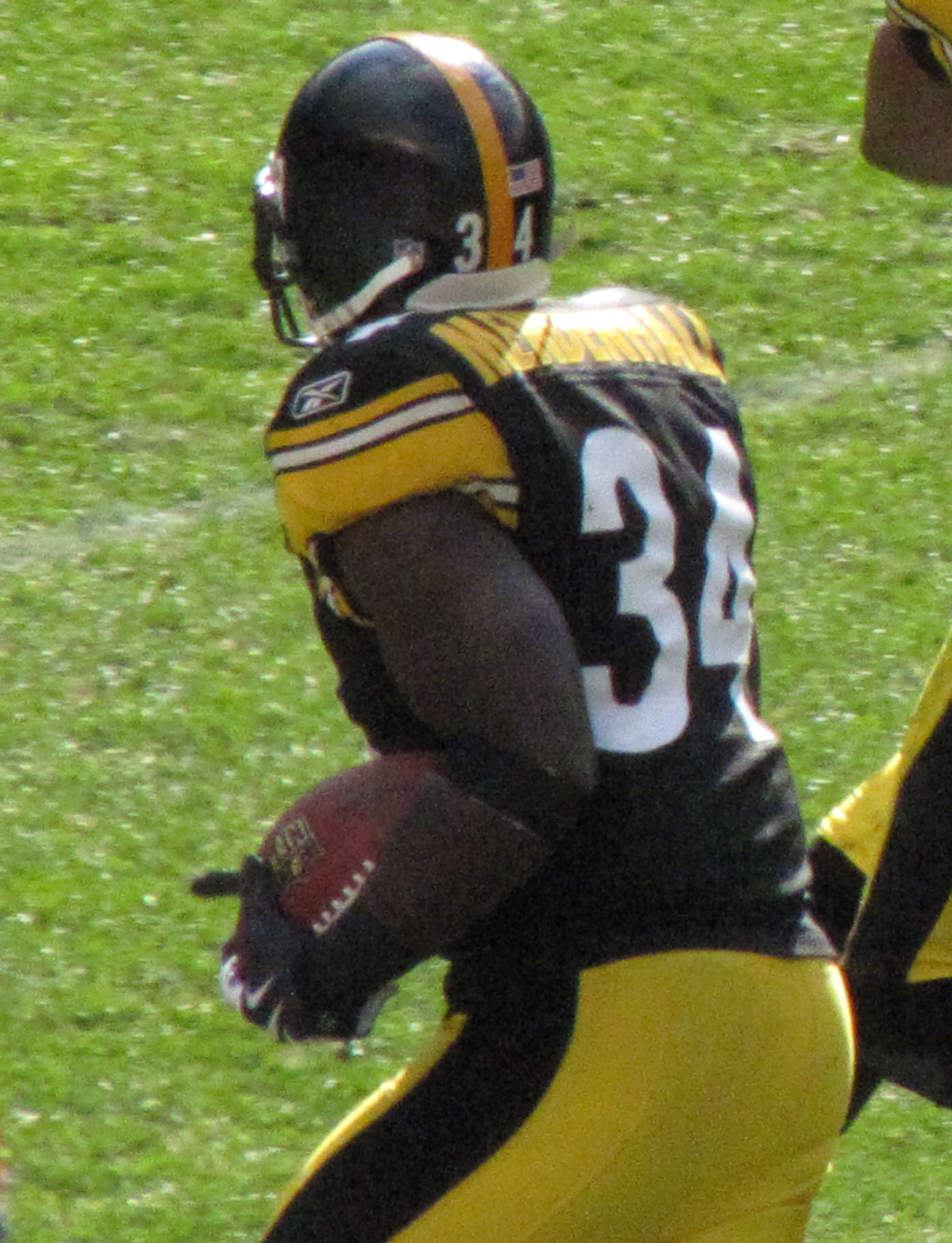 Rashard Mendenhall of the Pittsburgh Steelers in a game against the Cleveland Browns